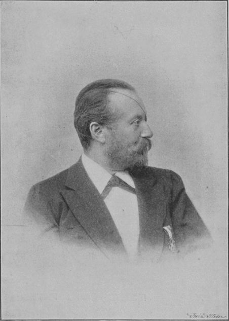 Portrait of Otakar Ševčík (1852-1934), Czech violinist and music teacher